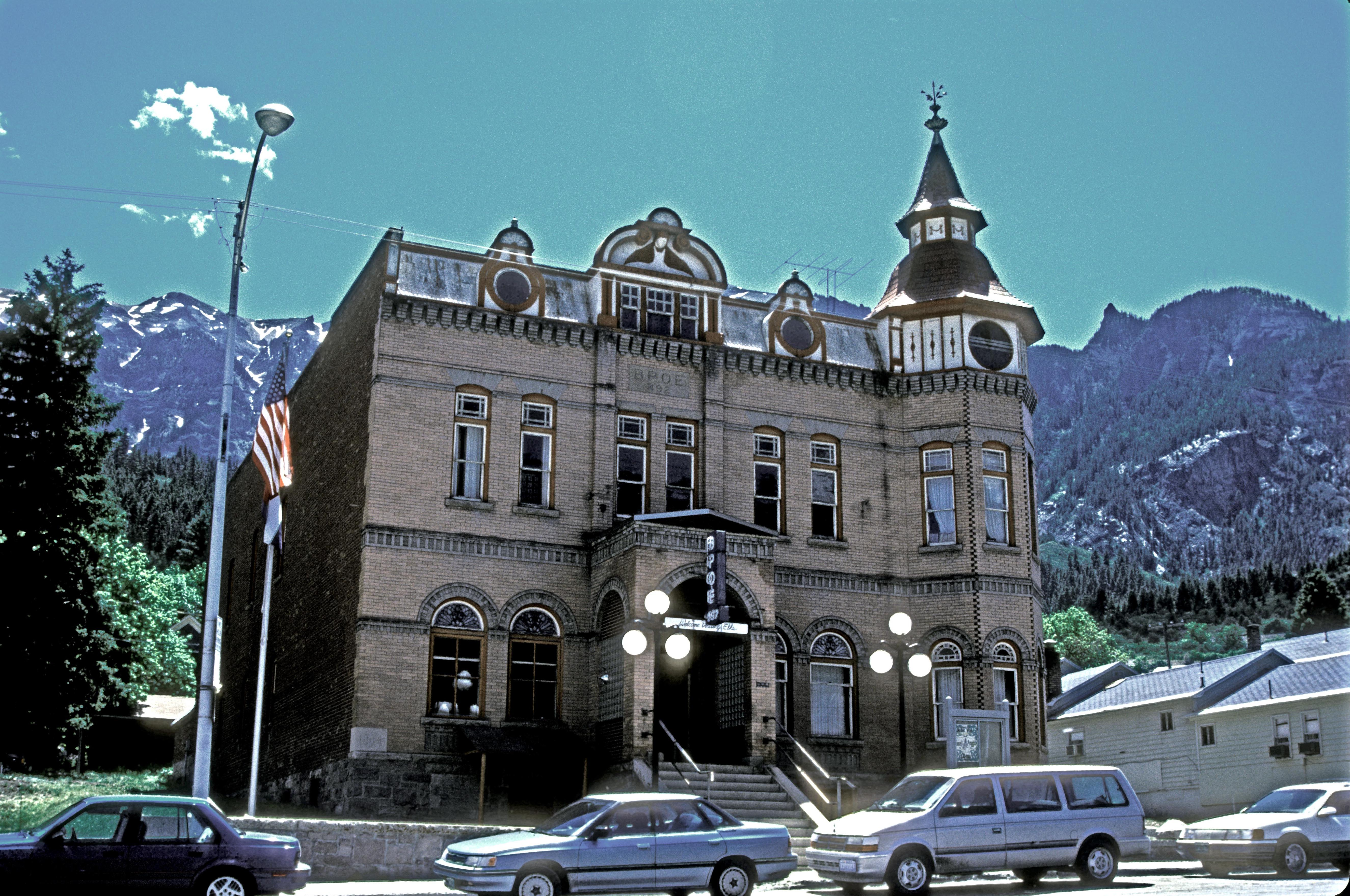 Ouray Elks Lodge #492, BUILT IN 1904. In the Ouray Historic District (listed on October 6, 1983 located along U.S. Route 550 aka Main Street) Building at 421 Main Street.